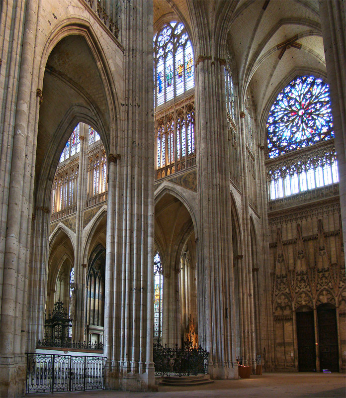 Church of Saint Ouen, Rouen, Seine-Maritime, Normandie, France. At the transept crossing.